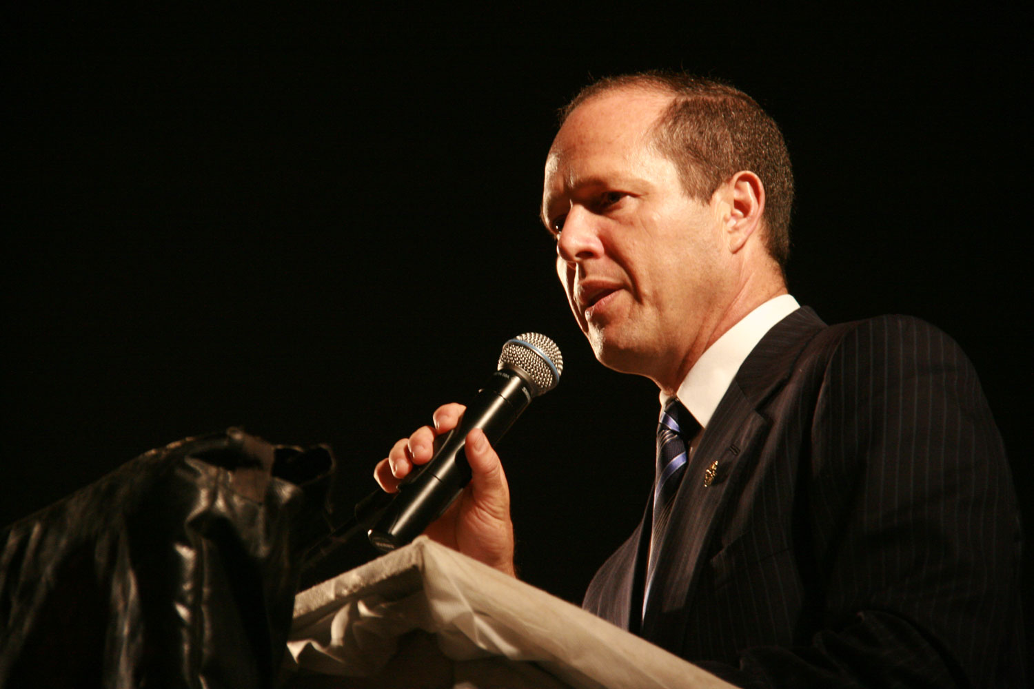 Nir Barkat, Mayor of Jerusalem, Israel